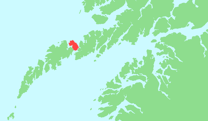 Locator map of Gimsøya, Lofoten, Norway